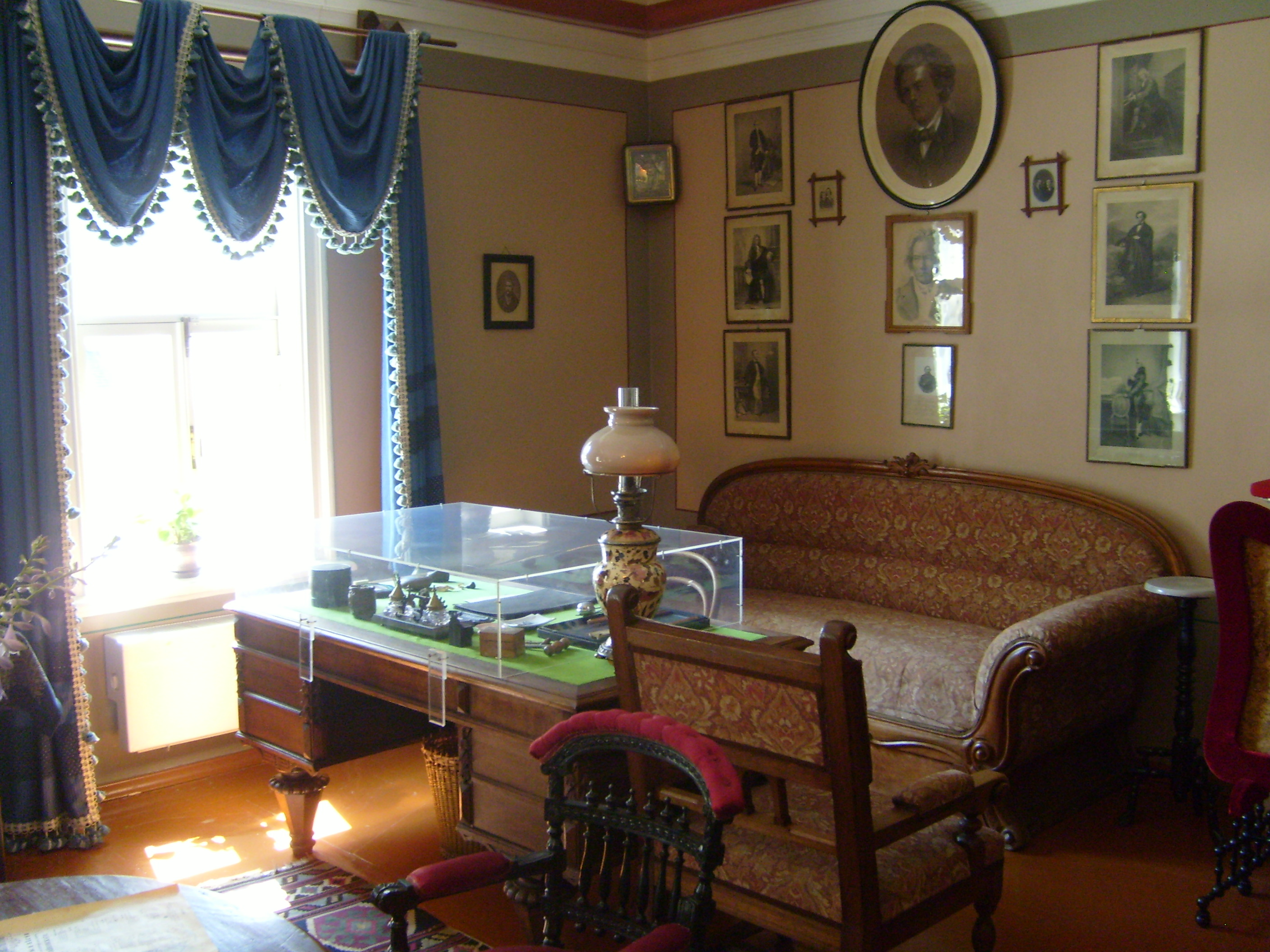 Writing table in the reception room where Tchaikovsky wrote his correspondence after breakfast